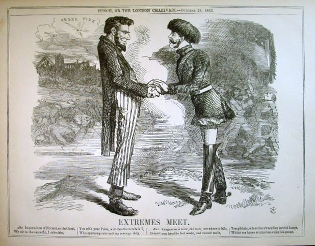 1863 Caricature of Lincoln and the Czar Alexander standing as friends. Imagery of the American Civil War and the Russian war with Poland is in the backdrop